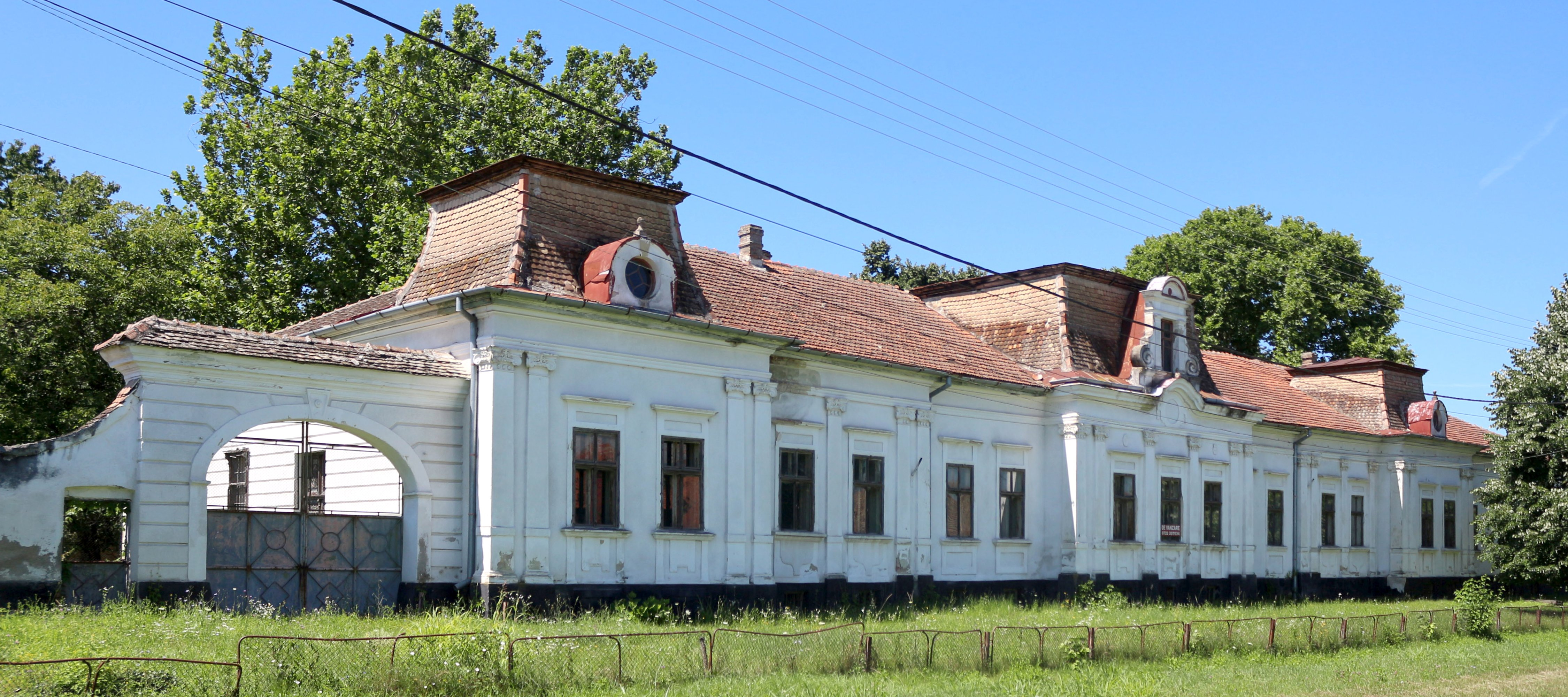 Juhasz Mansion, Zăgujeni, Romania, built 1896